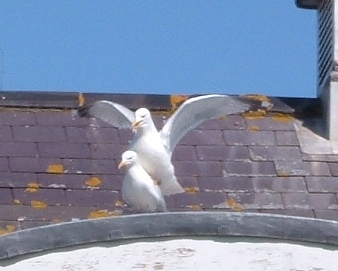 Seagulls matingCome fly with me!